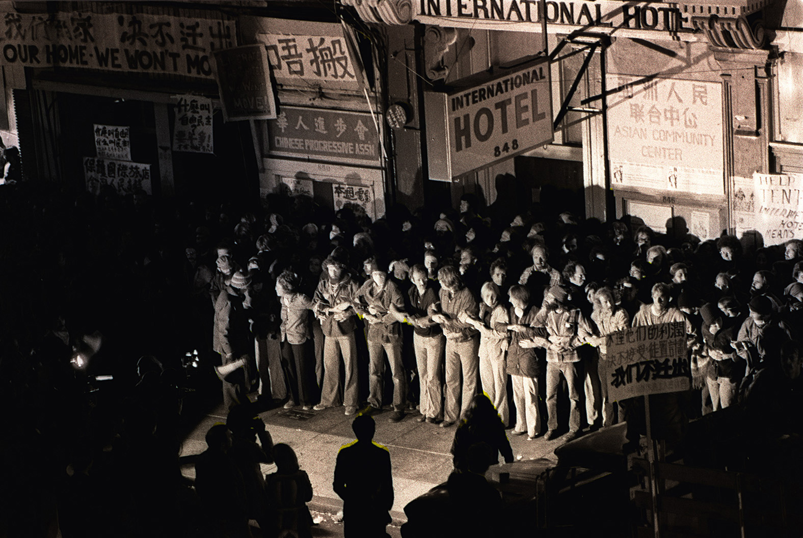 Hundreds of protesters linking arms in front of the International Hotel at 848 Kearny Street near Jackson Street in San Francisco, California try to prevent the San Francisco Sheriffs' deputies from evicting elderly tenants on August 4,1977. Photo by Nancy Wong.